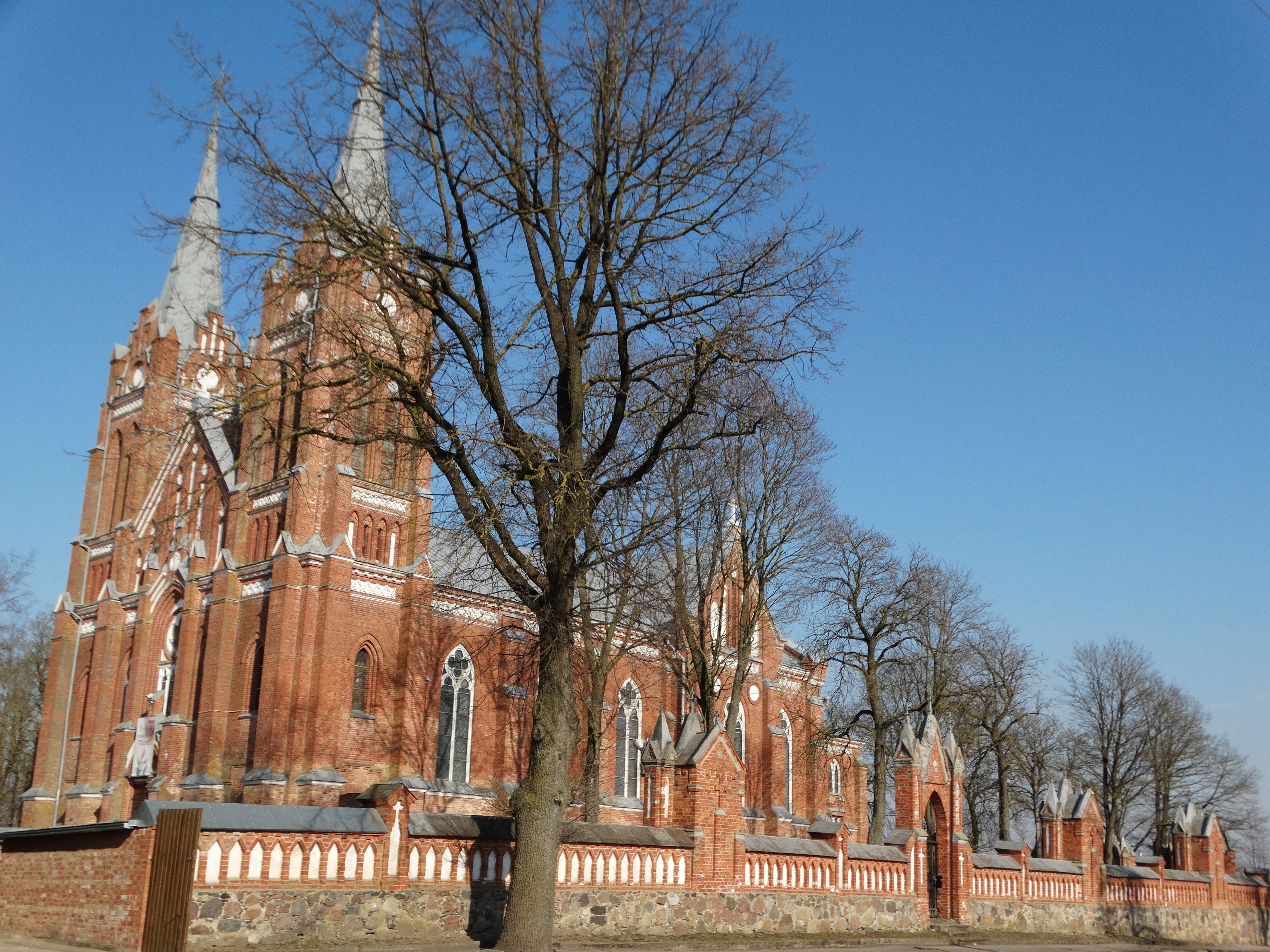 Holy Trinity Church, Gruzdžiai, Šiauliai district, Lithuania